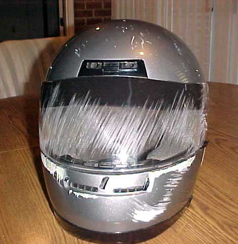 Photo © by Jeff Dean